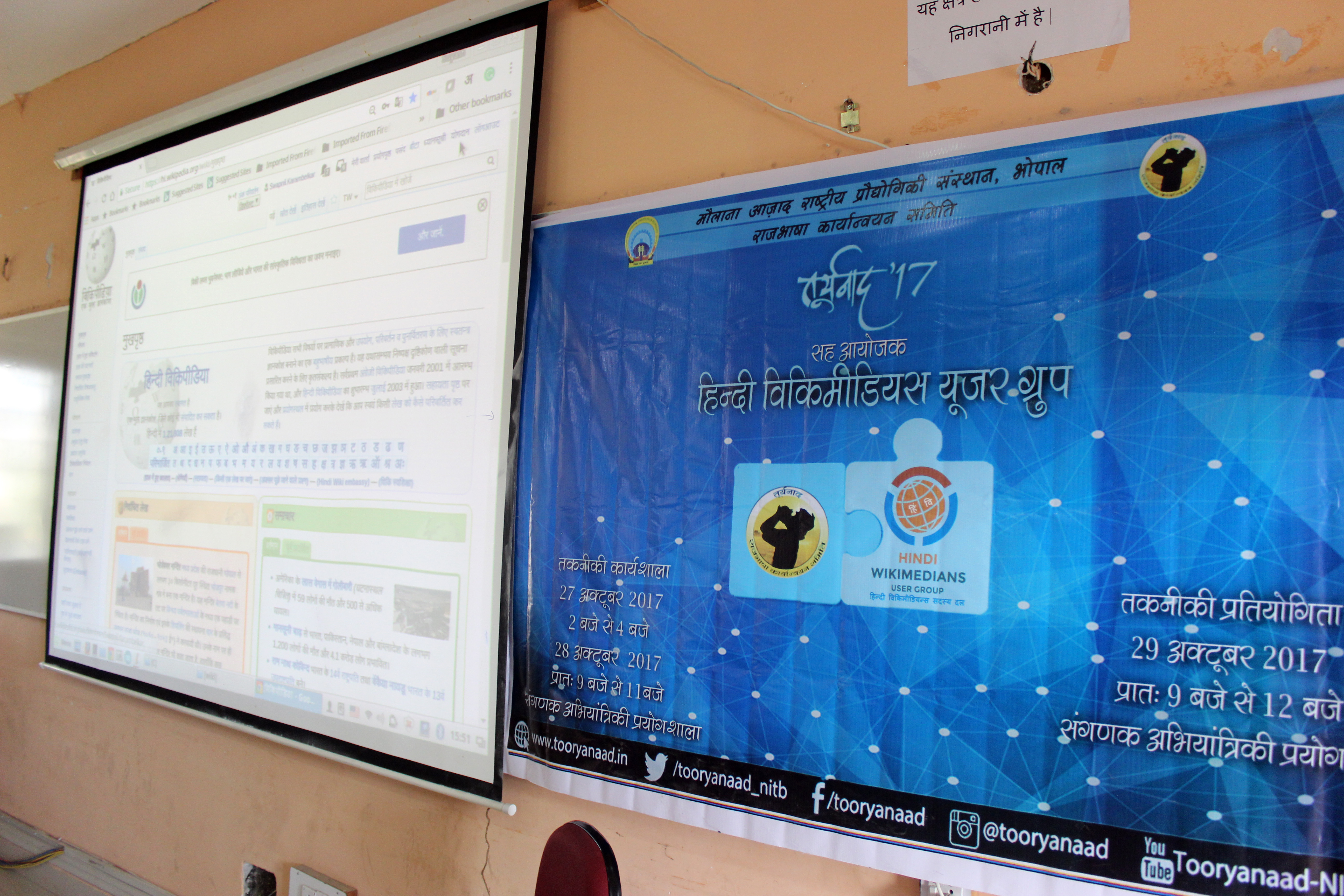 Hindi Wikipedia Workshop at Toorynaad 2017